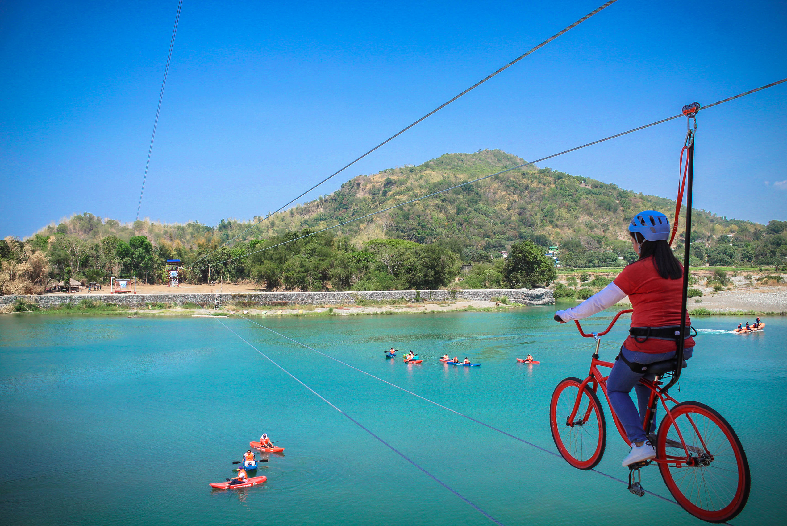 Extreme outdoor activities.